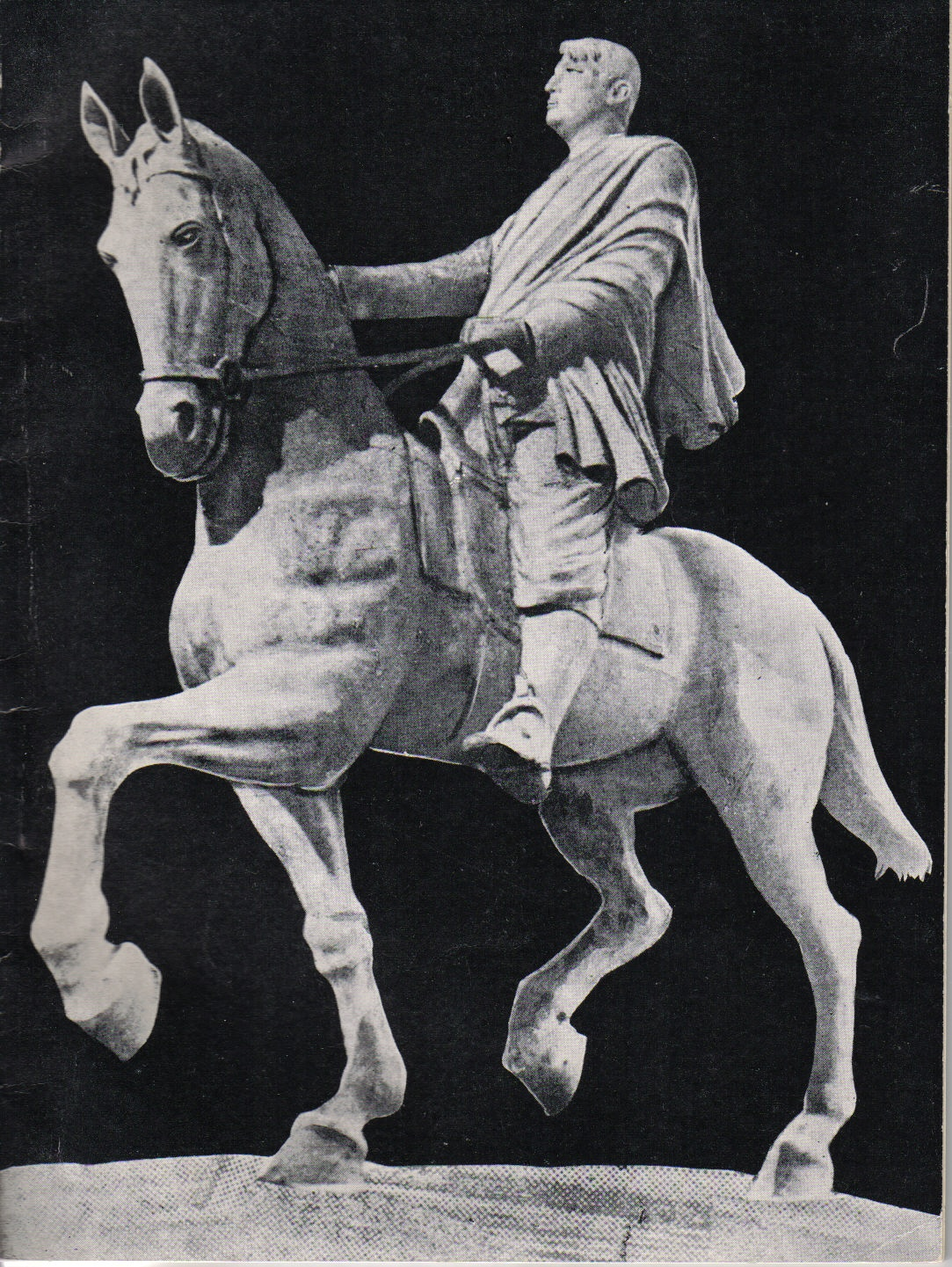 Statue of Bagha Jatin by the side of Victoria Memorial, Kolkata. From the collection of Prithwindra Mukherjee, who releases the rights under GFDL.